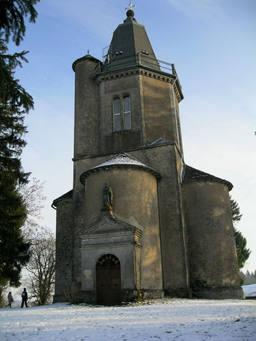 The chapel mont Saint Joseph is located 700 meters SSE of the village Saint-Jean-Lagineste in France.